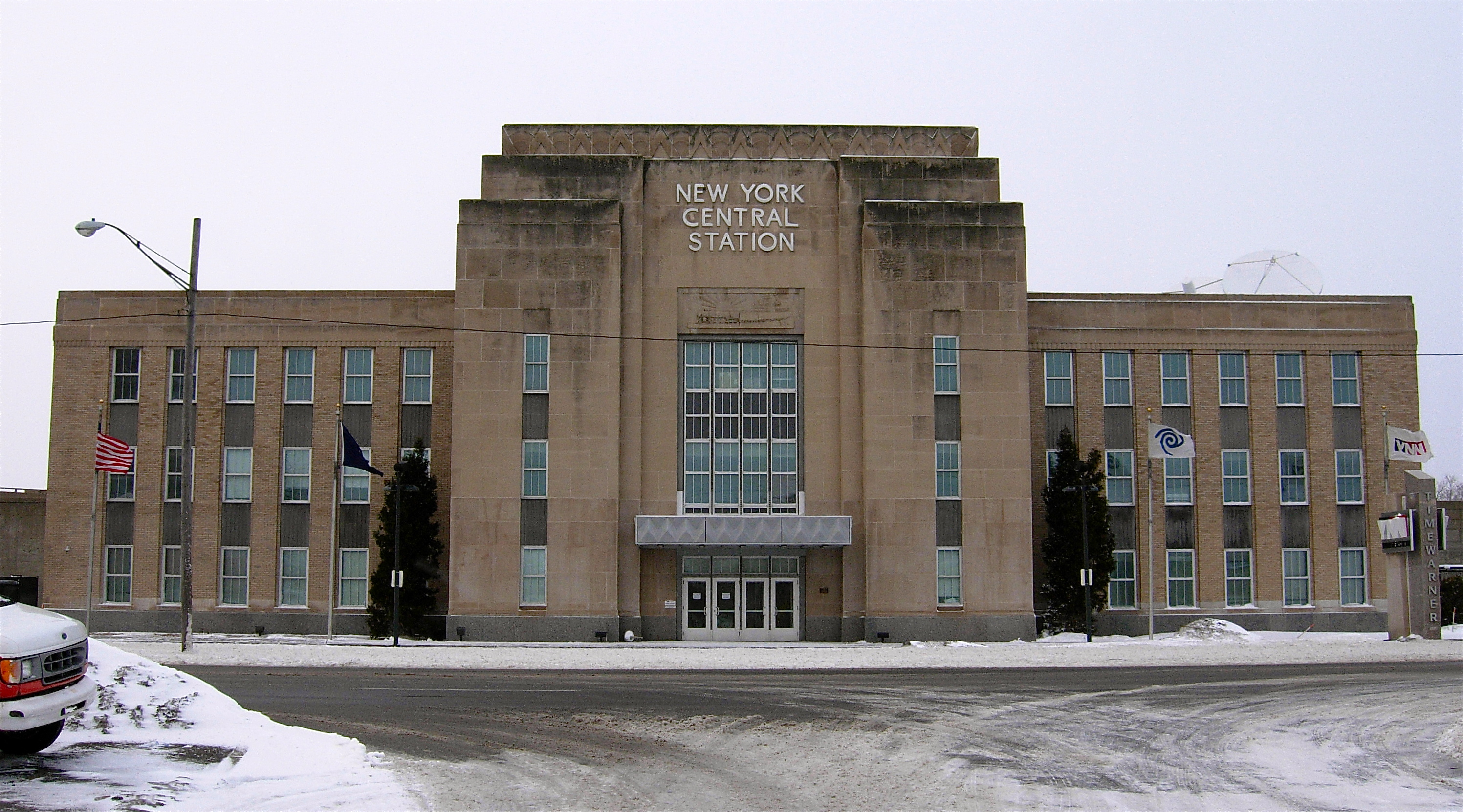 Syracuse Railroad terminal